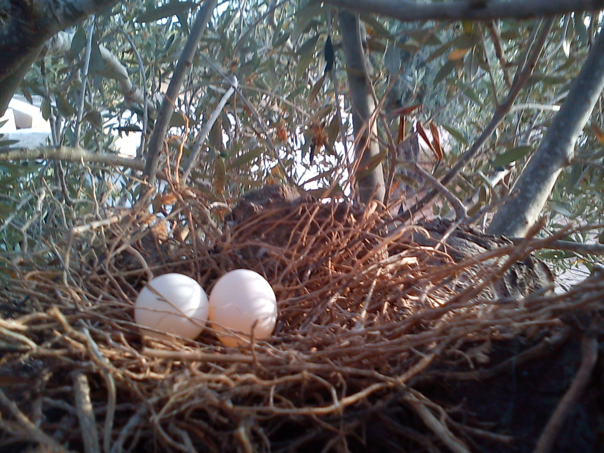 Spilopelia senegalensis Eggs - An olive tree in Djerba island, Tunisia